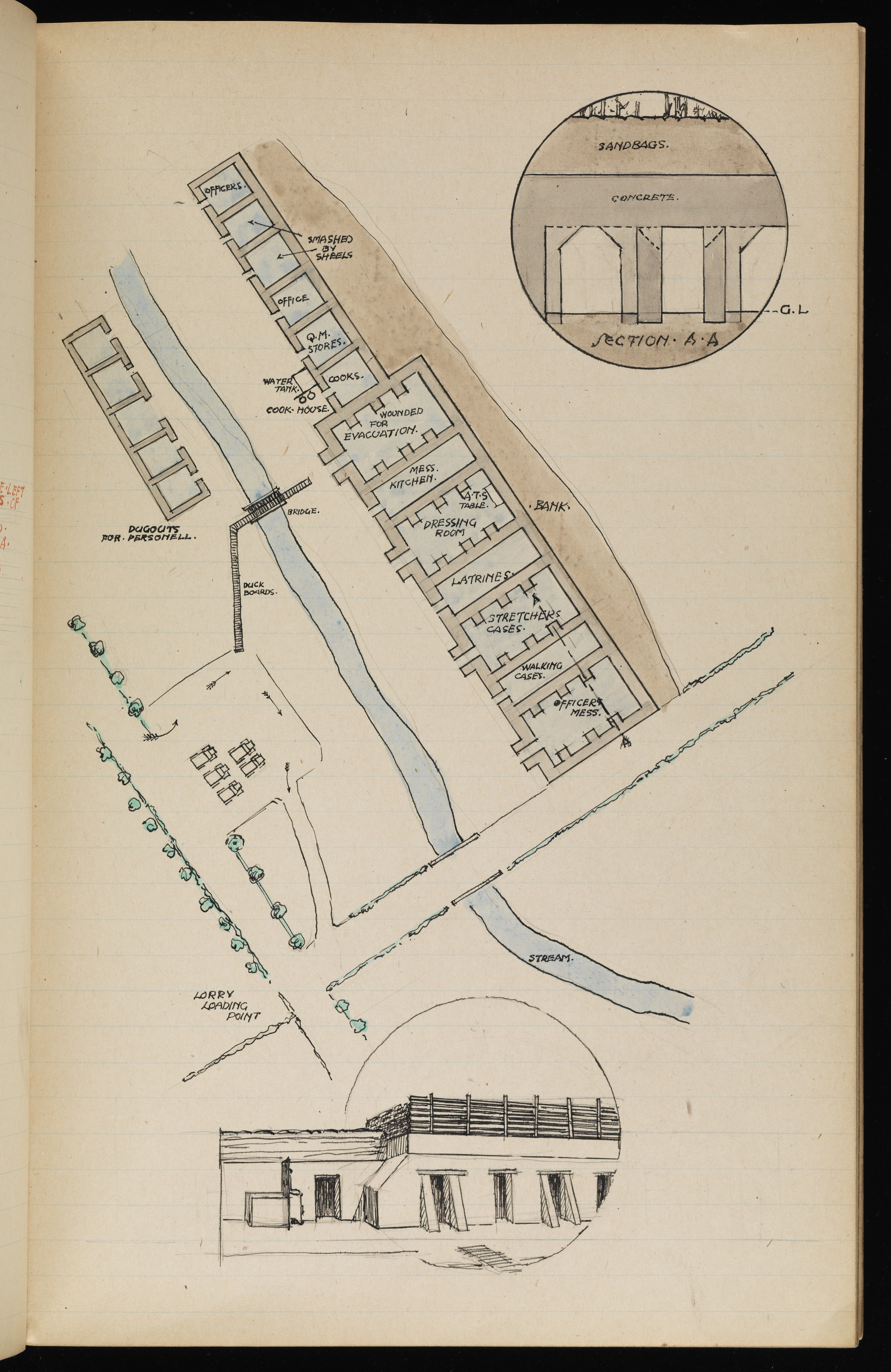 Drawing of Essex Farm, RAMC/603 (Vol. 2). Text on facing page : Essex Farm, Description: Built about 800 yards to the left of Duhallow (?) and on the banks of the same stream. Concrete has been largely used with sand bags over all to a depth of 5 feet (?). Some of them have been pierced by shells and are not in use. From RAMC/602-603. Two volumes of sketch plans by Lance Corporals S.T. Smith and A.R. Watt, RAMC, of Advanced Dressing Stations occupied by Field Ambulances of the 23rd Division in Flanders during the Battle of the Somme, 1916-1917, with ms. description Archives & Manuscripts